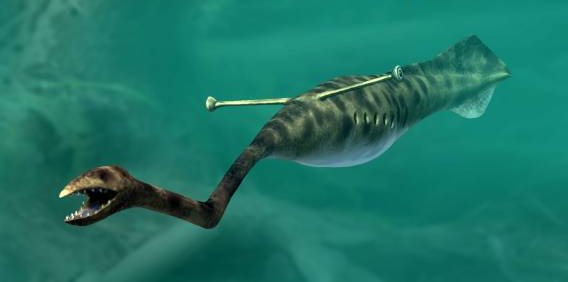 Crop of original file in file name